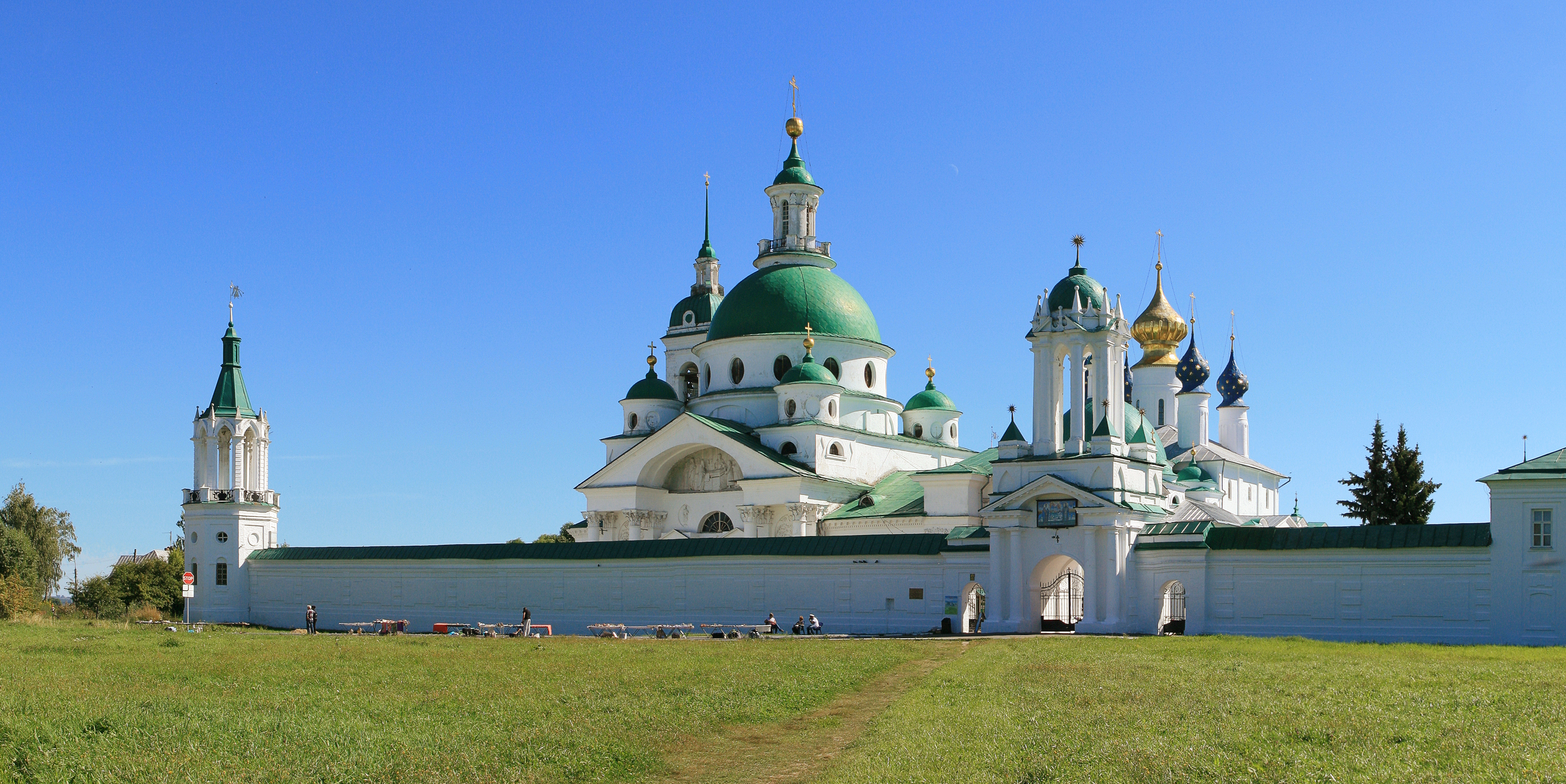 Spaso-Yakovlevsky Monastery, Rostov Veliky, Yaroslavl oblast